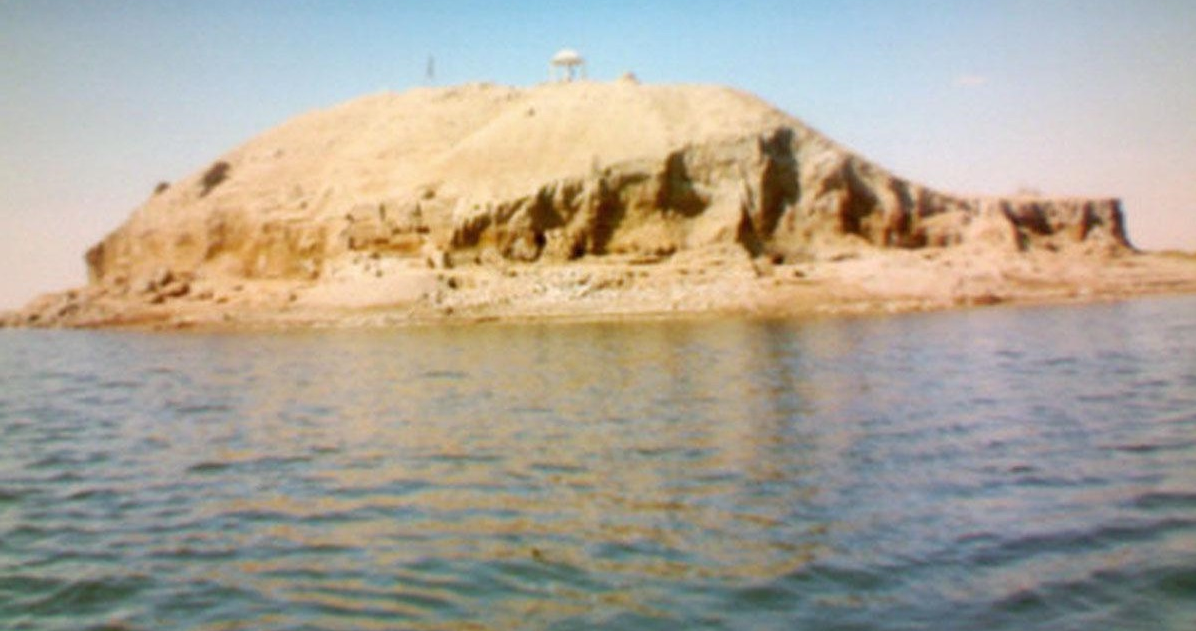 tell taban in Syria